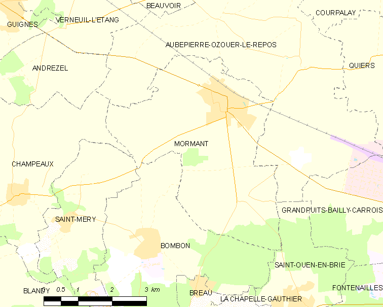 Map of French municipality Mormant